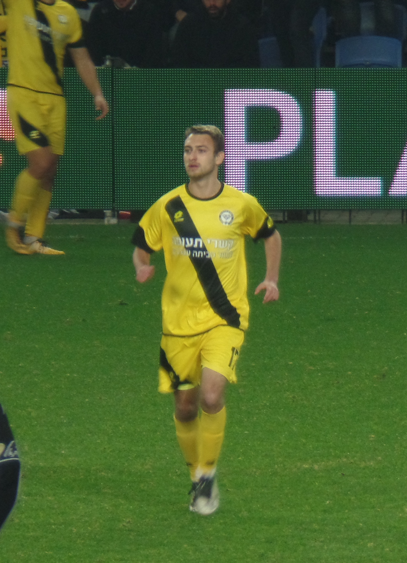 JAKE ROZHANSKY - Maccabi Netanya 2018 SAMSUNG CAMERA PICTURES